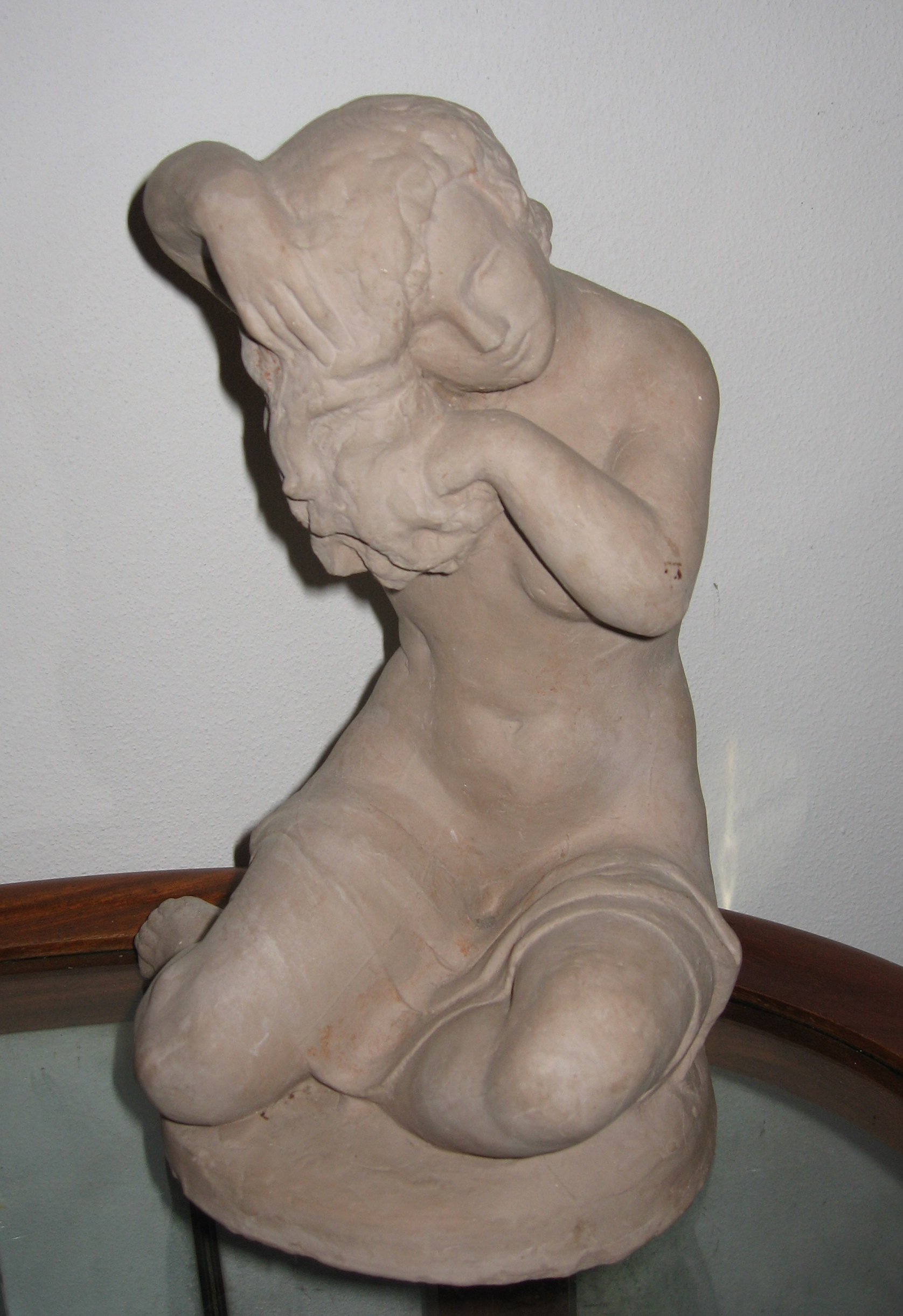 Combing woman, sculpture (terracotta, height 30 cm) by Gijs Jacobs van den Hof, 1942